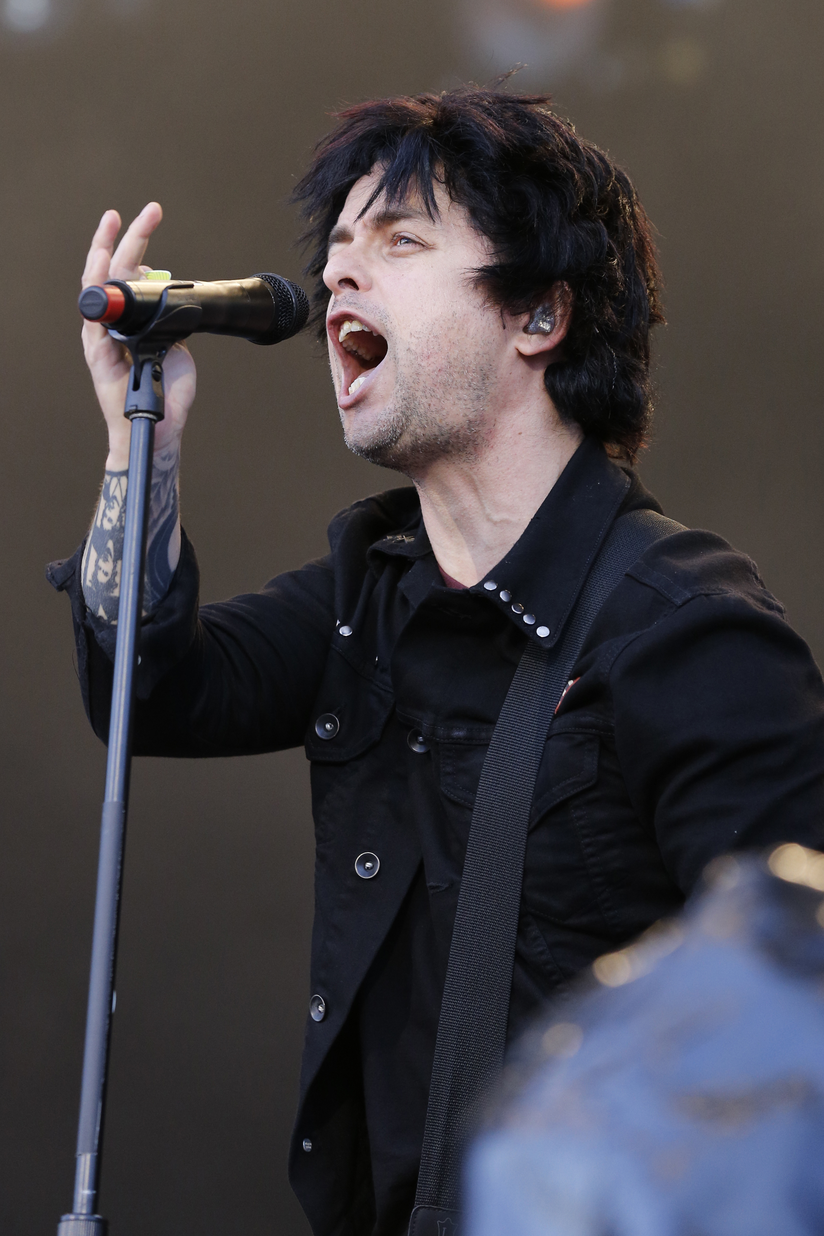 Billie Joe Armstrong, singer and guitarist of Green Day, stands on the Center Stage of Rock im Park-Festival 2013.